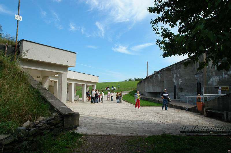 Loghouse Zelený (right), fortress Dobrošov.